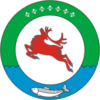 Allaikhovsky rayon (Yakutia), coat of arms